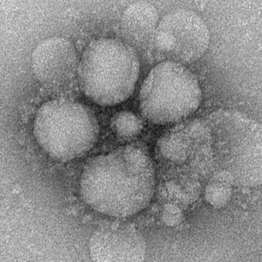 MERS-CoV particles as seen by negative stain electron microscopy. Virions contain characteristic club-like projections emanating from the viral membrane.